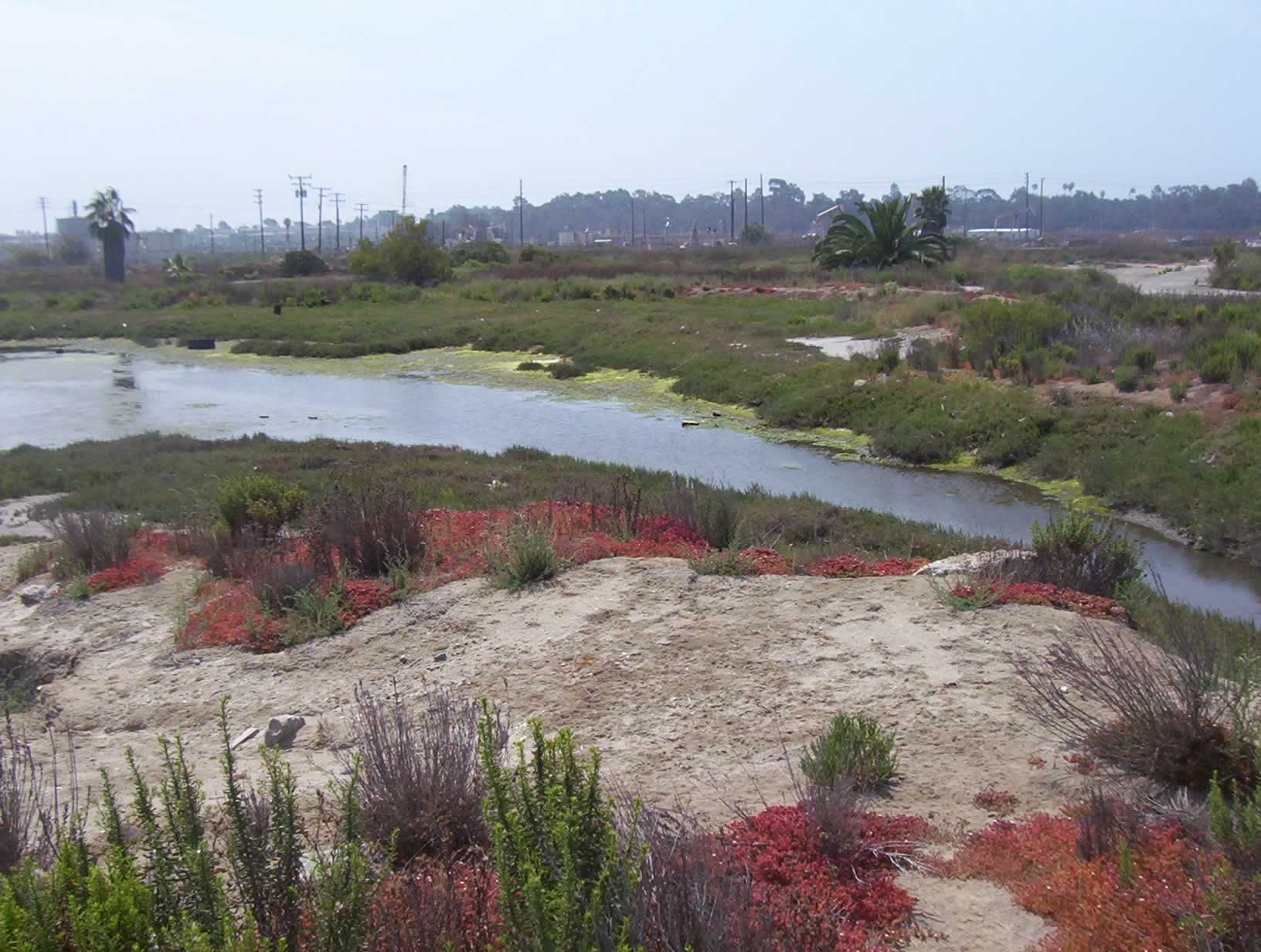 The Zedler Marsh at Los Cerritos Wetlands, at the border between Los Angeles and Orange Counties, California, USA taken: 7/12/08